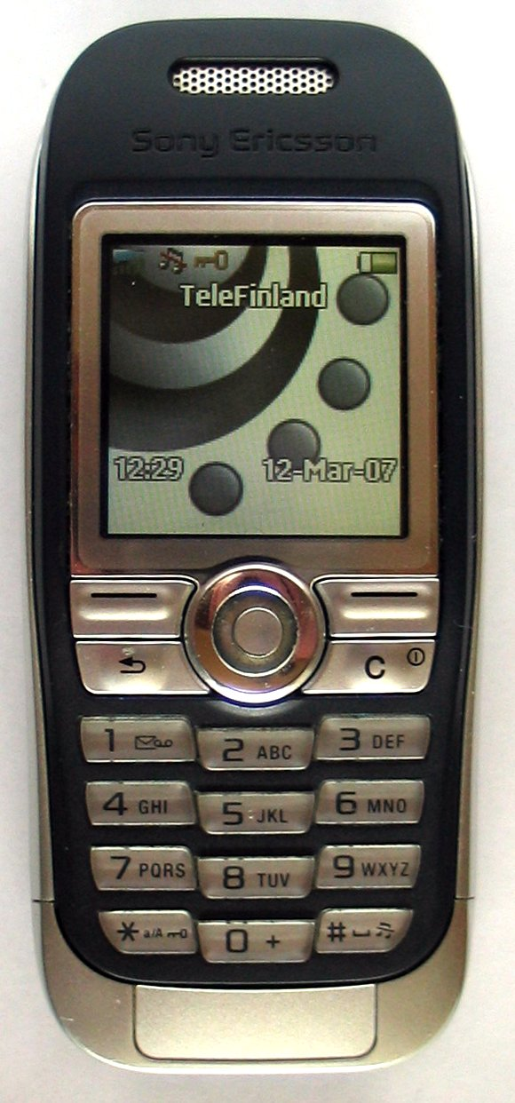 A Sony Ericsson j300i GSM phone.